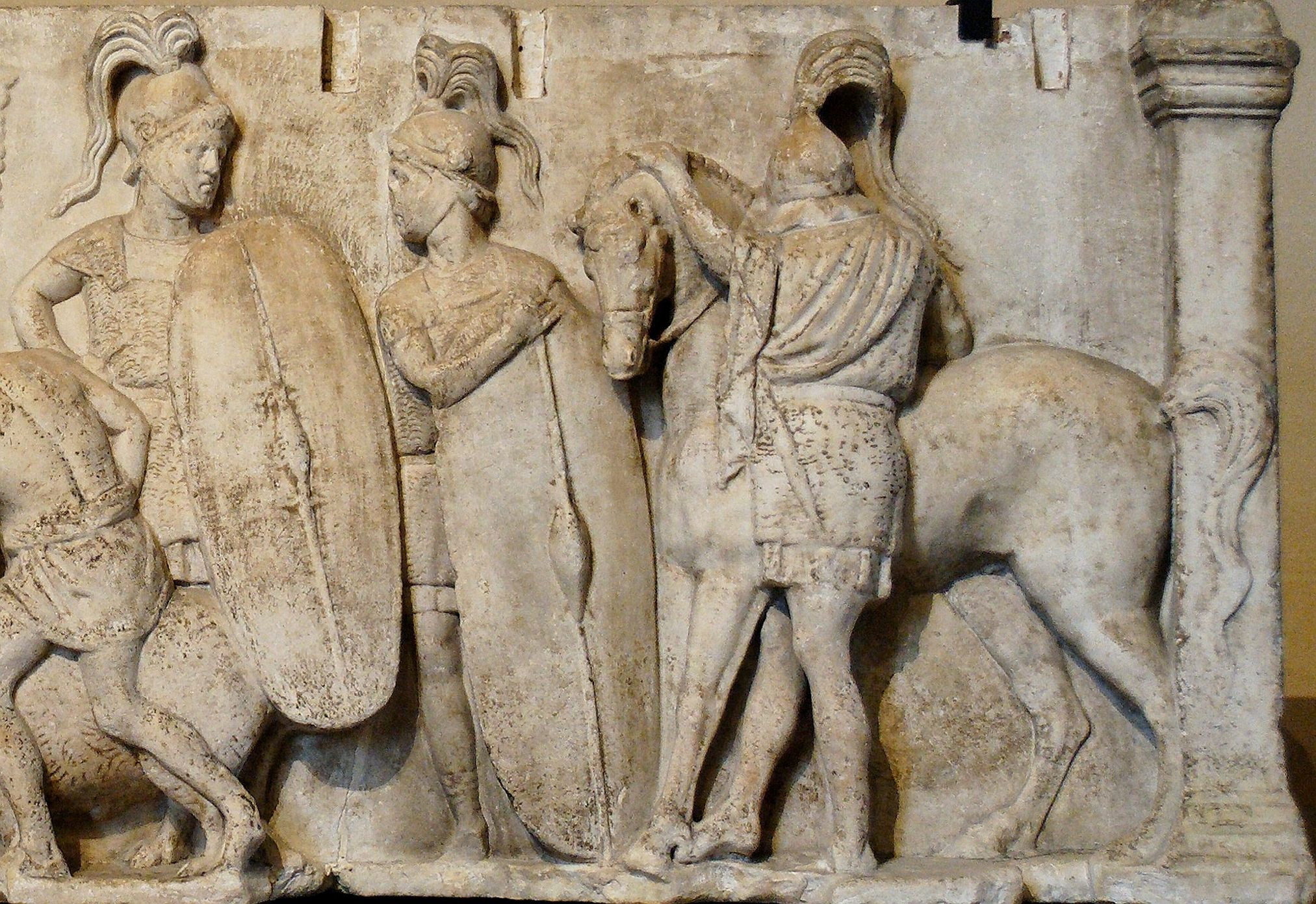 Sacrifice scene during a census: Right part of a plaque from the Altar of Domitius Ahenobarbus known as the “Census frieze”. Marble, Roman artwork of the late 2nd century BC. From the Campo Marzio, Rome.